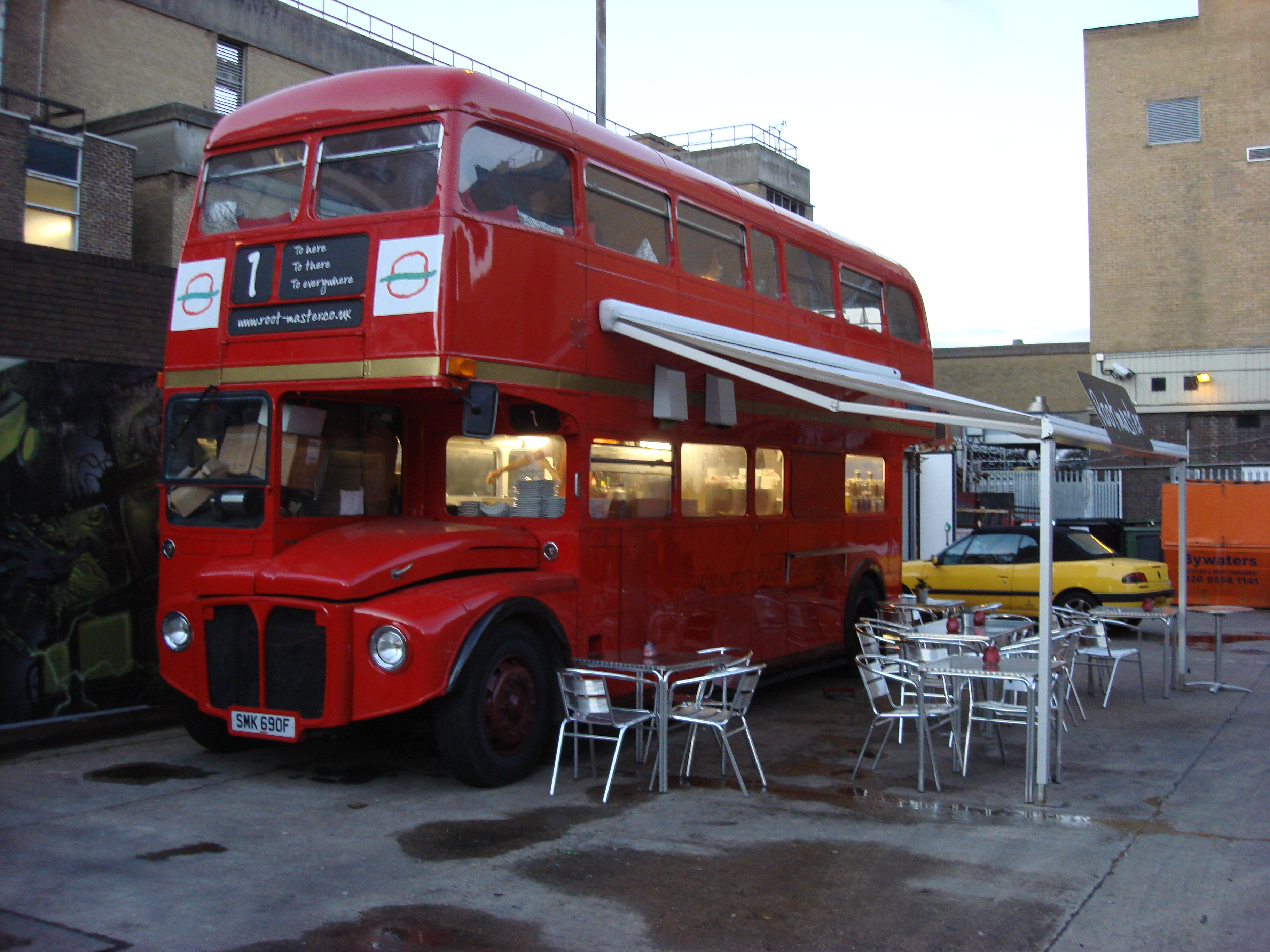 Rootmaster, Old Truman Brewery car park, off Dray Walk, Brick Lane, London, E1 6Ql